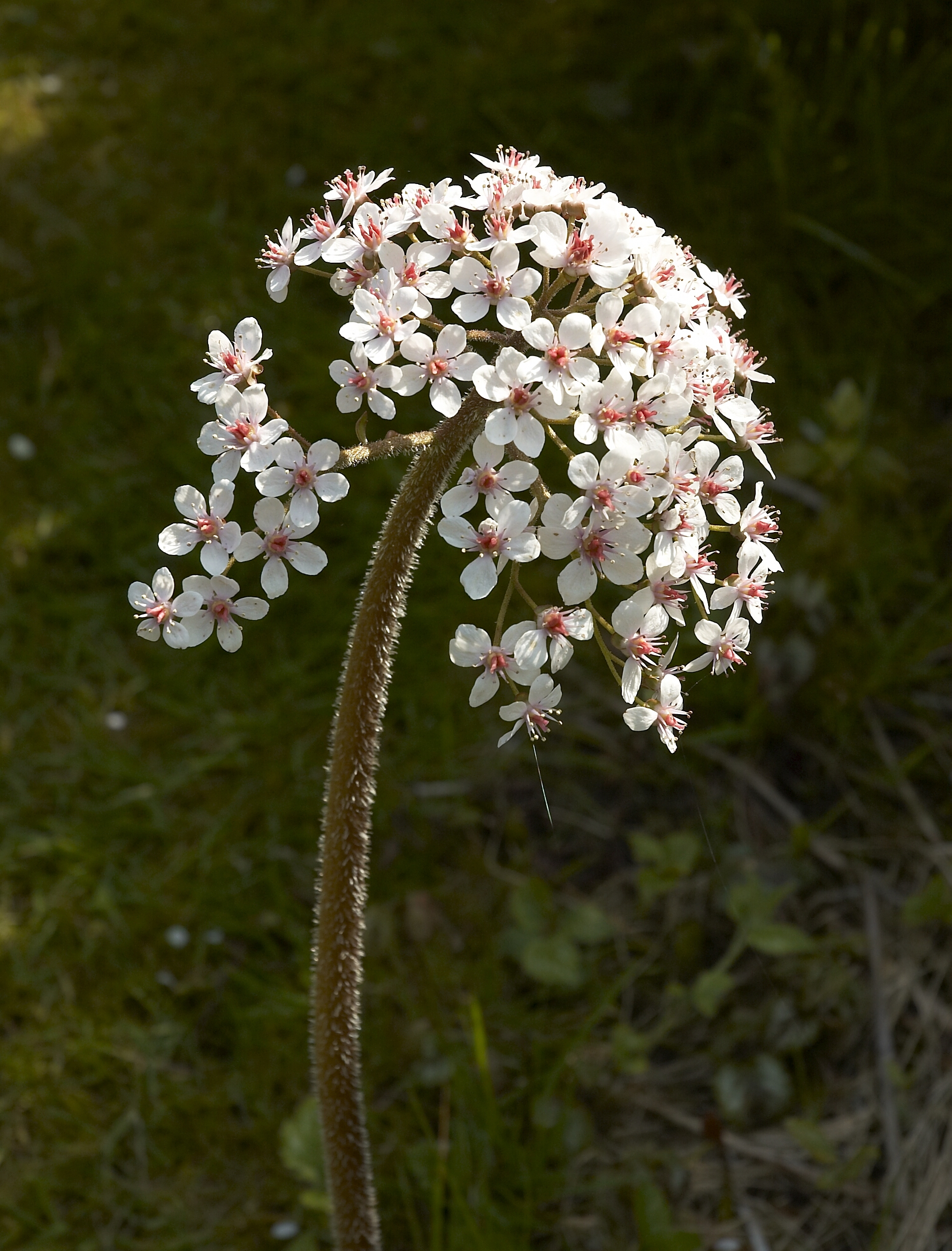 Indian rhubarb or Umbrella plant